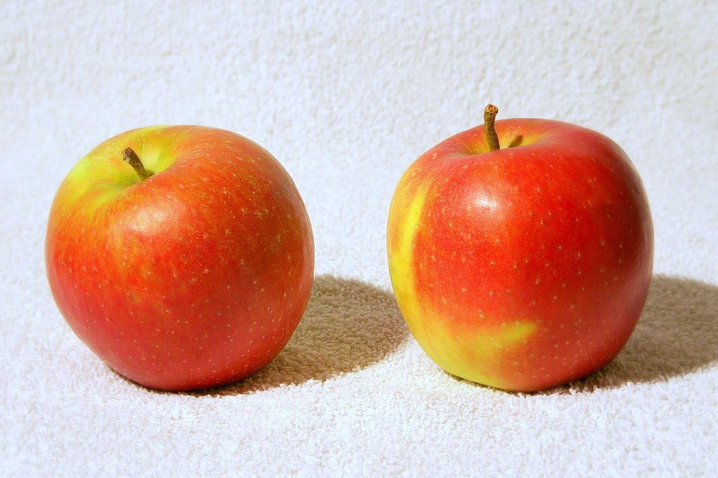 Jonagold apples - Pommes Jonagold